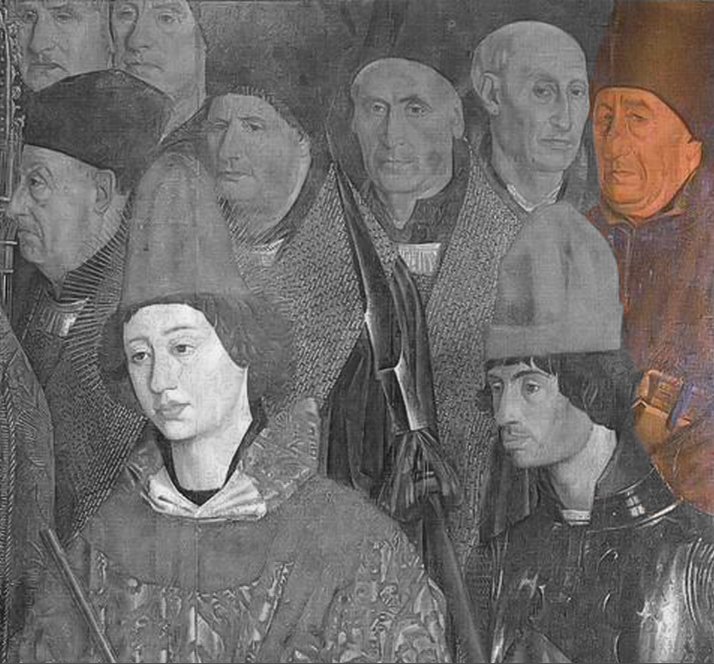 Image of a chronicler in the upper right corner of the "Panel of the Archishop" (fourth panel of the St. Vincent panels, c.1450-1470, atributed to painter Nuno Gonçalves. Identification of the chronicler is uncertain and disputed. Most commonly believed to be Gomes Eanes de Zurara (Figueiredo 1910; Markl, 1988; MNAA), although a recent controversial book (Almeida and Albuquerque, 2000) identifies him instead as Fernão Lopes.